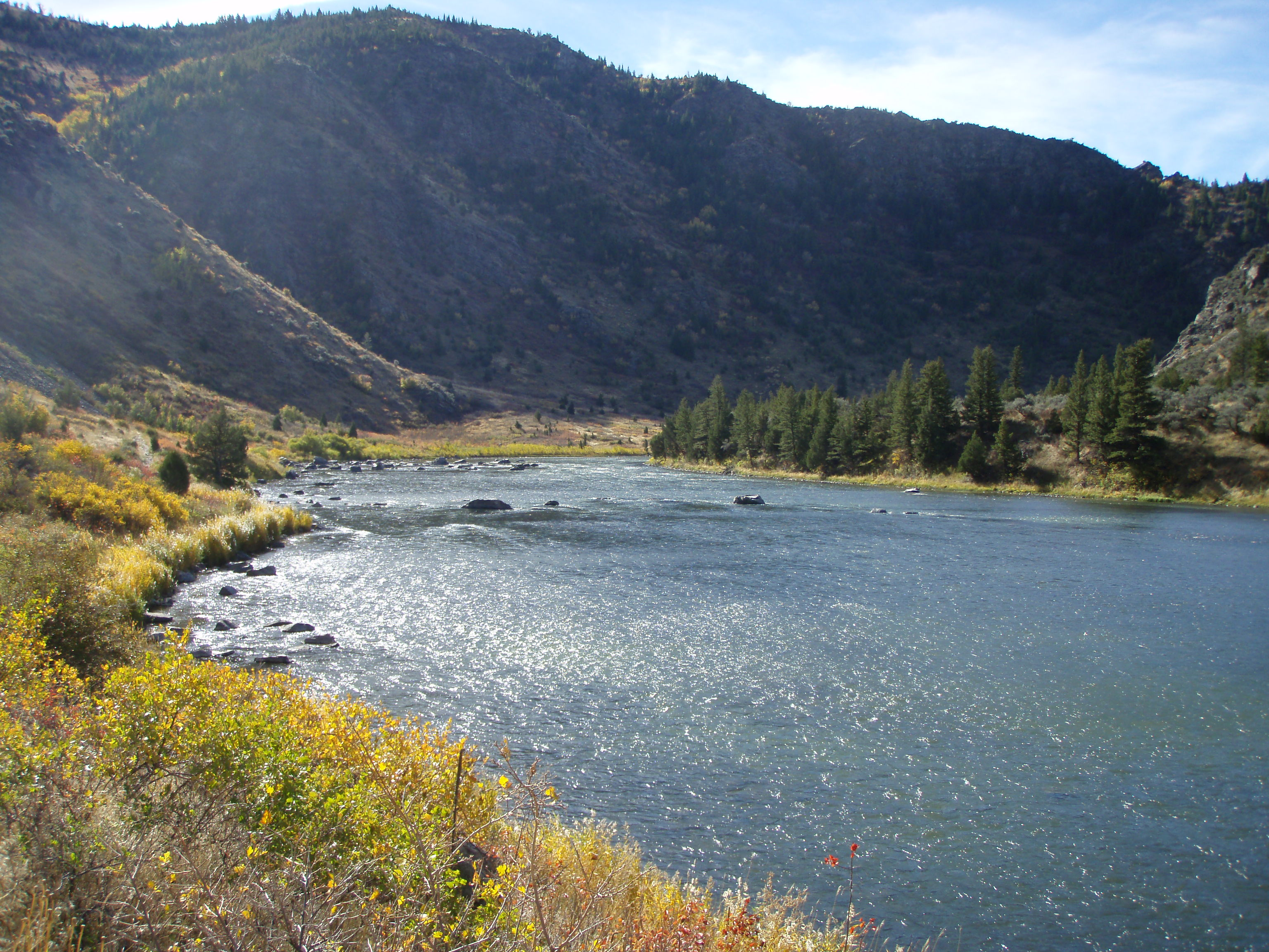 Lower Madison River in Beartrap Canyon